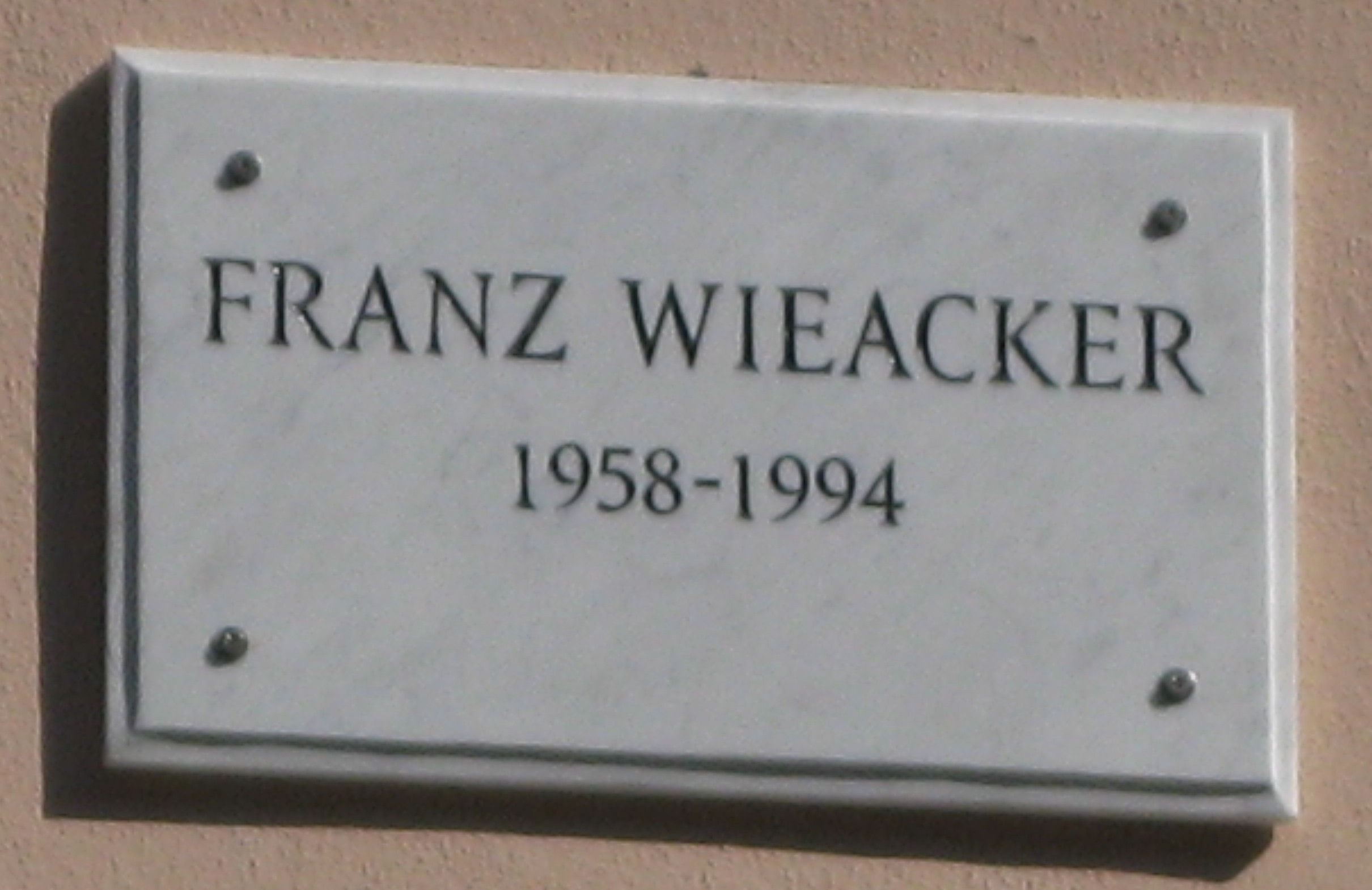 Göttinger Gedenktafel für Franz Wieacker am Michaelishaus in Göttingen